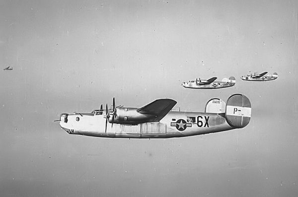 B-24H Serial 42-95219 of the 854th Bomb Squadron, 491st Bomb Group, based at RAF Metfield, England.